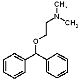 Structure of Diphenhydramine